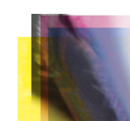 A close-up of the misregistration.png-image, using misregistered CMYK.